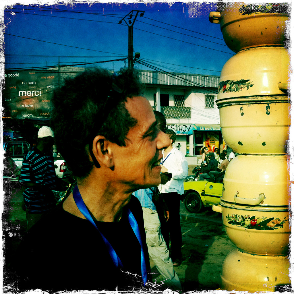 SUD Salon Urbain de Douala 2010. Didier Schaub artistic director of doual'art